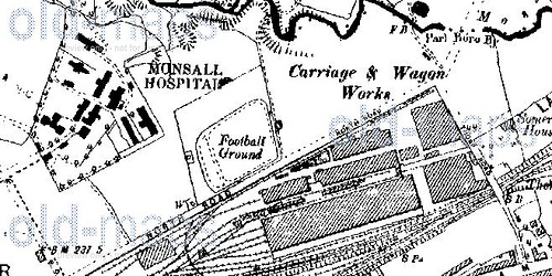 A section of a pre-1945 Ordnance Survey map centred on the location of North Road stadium, Clayton, Greater Manchester.